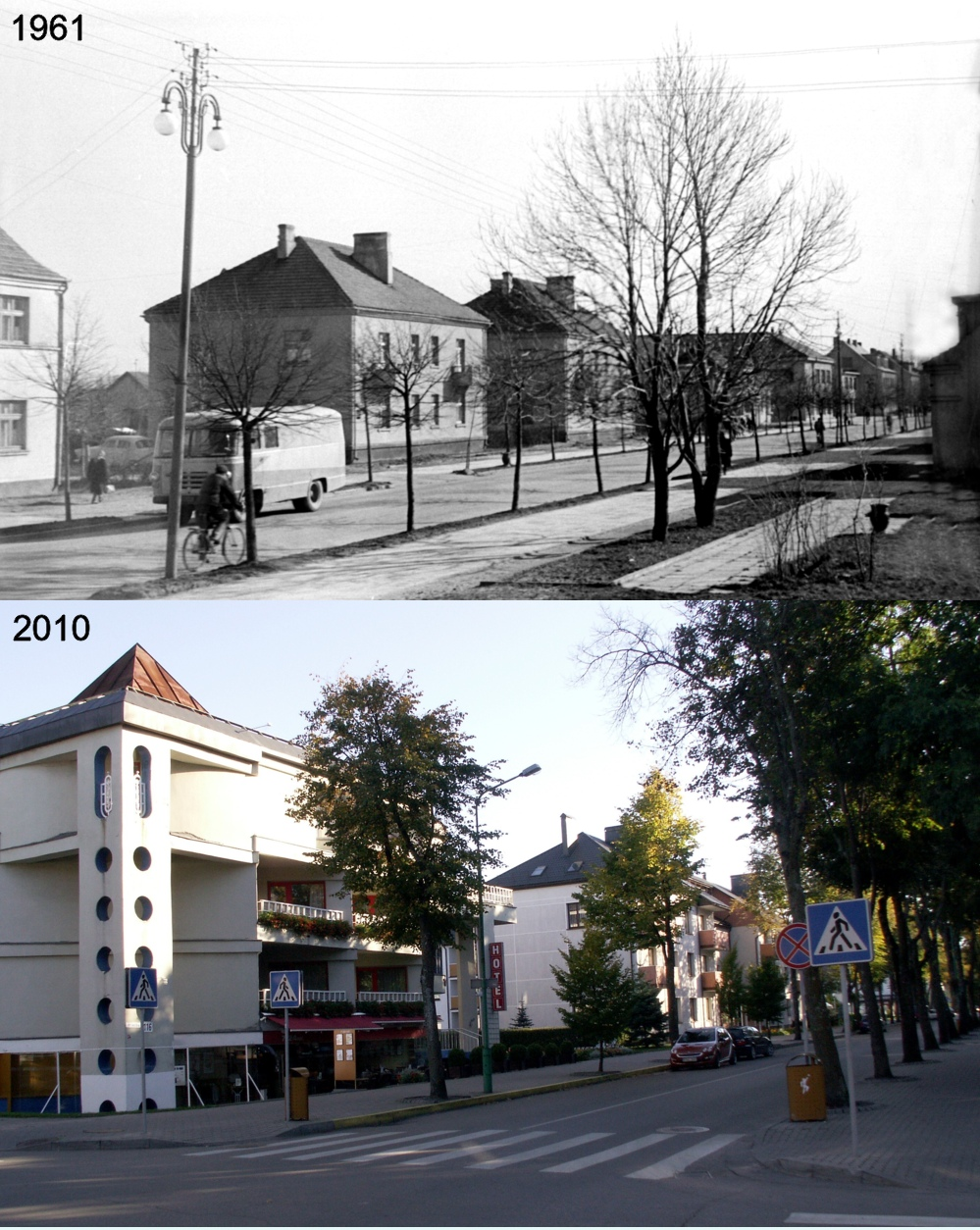 Palanga, Vytauto str. in 1961 - 2010, LithuaniaLietuvių: Palangos Liepojos-Vytauto g. 1961 - 2010 m., Lietuva